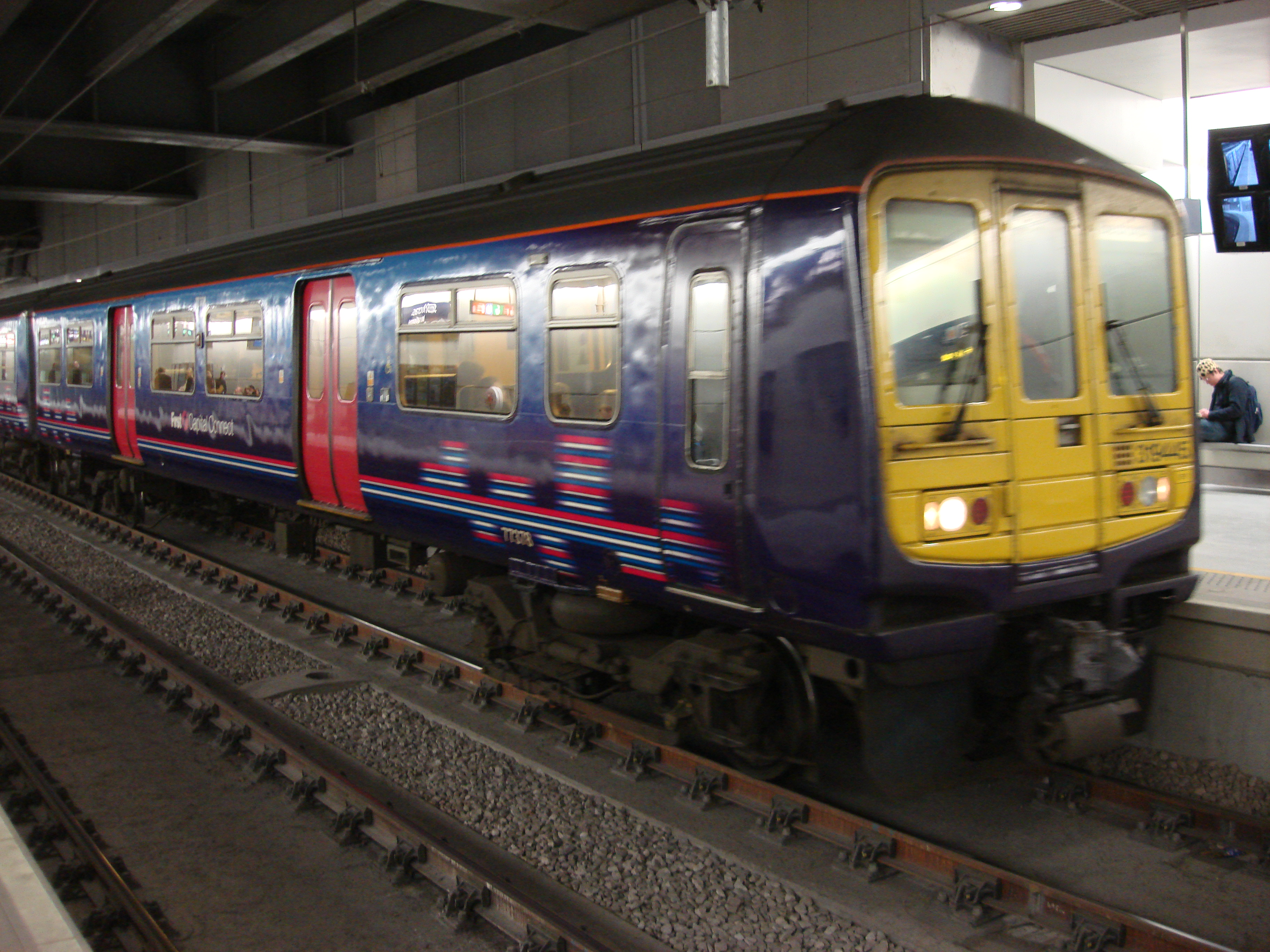 319445 at St Pancras